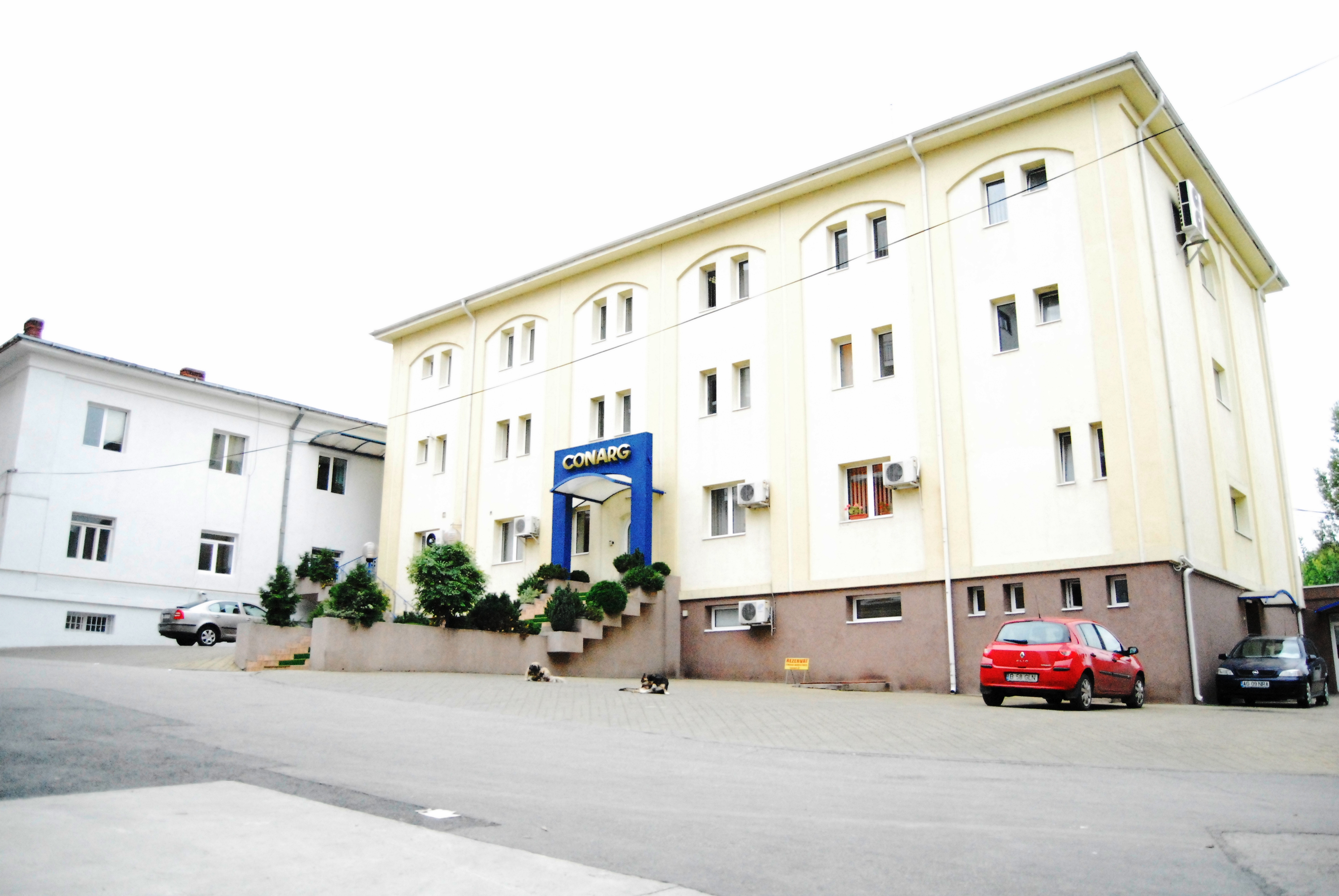 Former Pitesti prison - detention building.